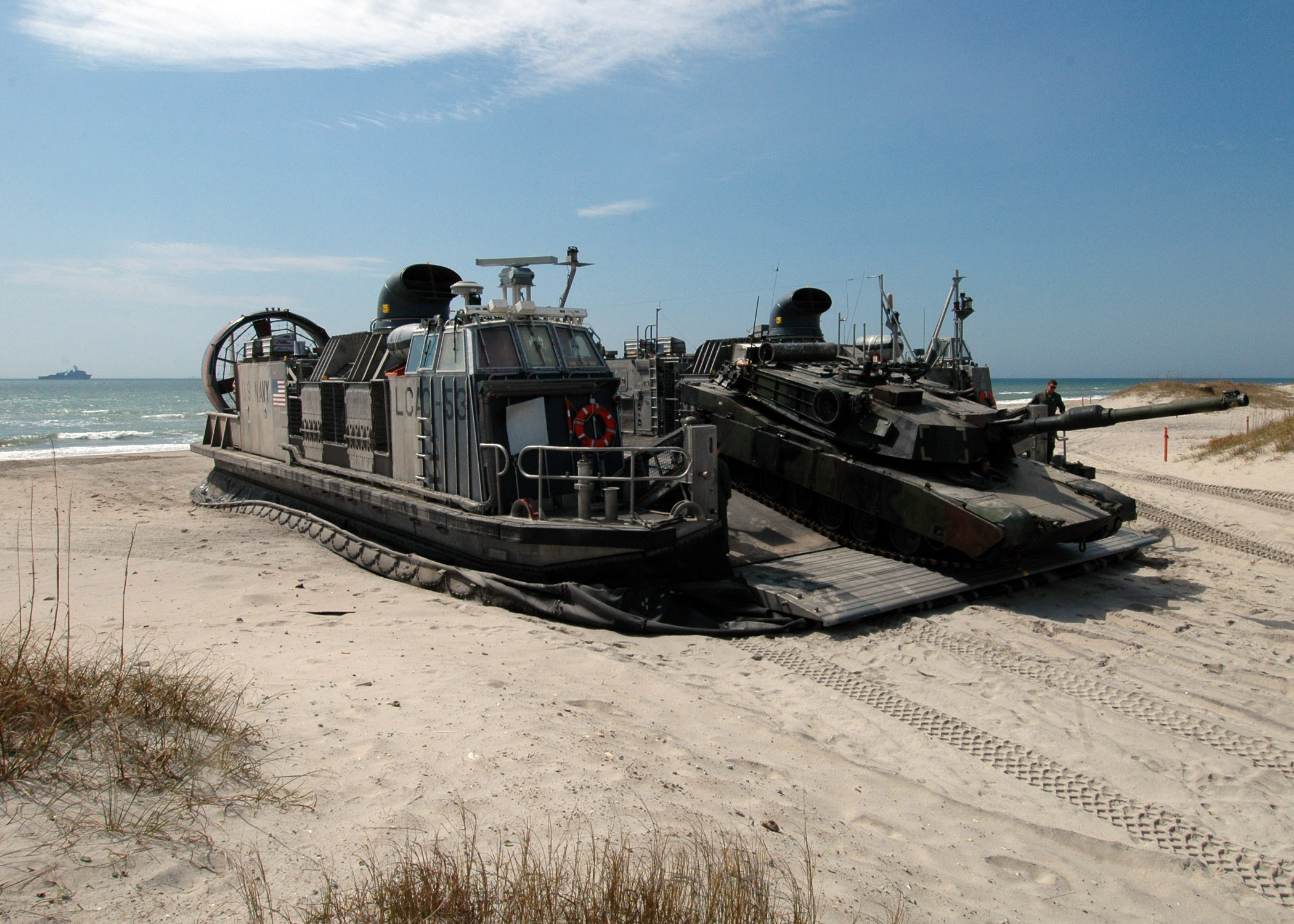 Onslow Beach, NC (April 11, 2006) - M1A1 Abrams Battle Tank being unloaded to the beach of NC from Landing Craft Air Cushion Five Three (LCAC 53). The LCAC was launched from the amphibious assault ship USS Iwo Jima (LHD 7) currently off the coast of NC participating in Expeditionary Strike Group Exercise's (ESGEX) in preparation for an upcoming deployment. U.S. Navy photo By Photographer's Mate 1st Class Robert J. Fluegel (RELEASED)